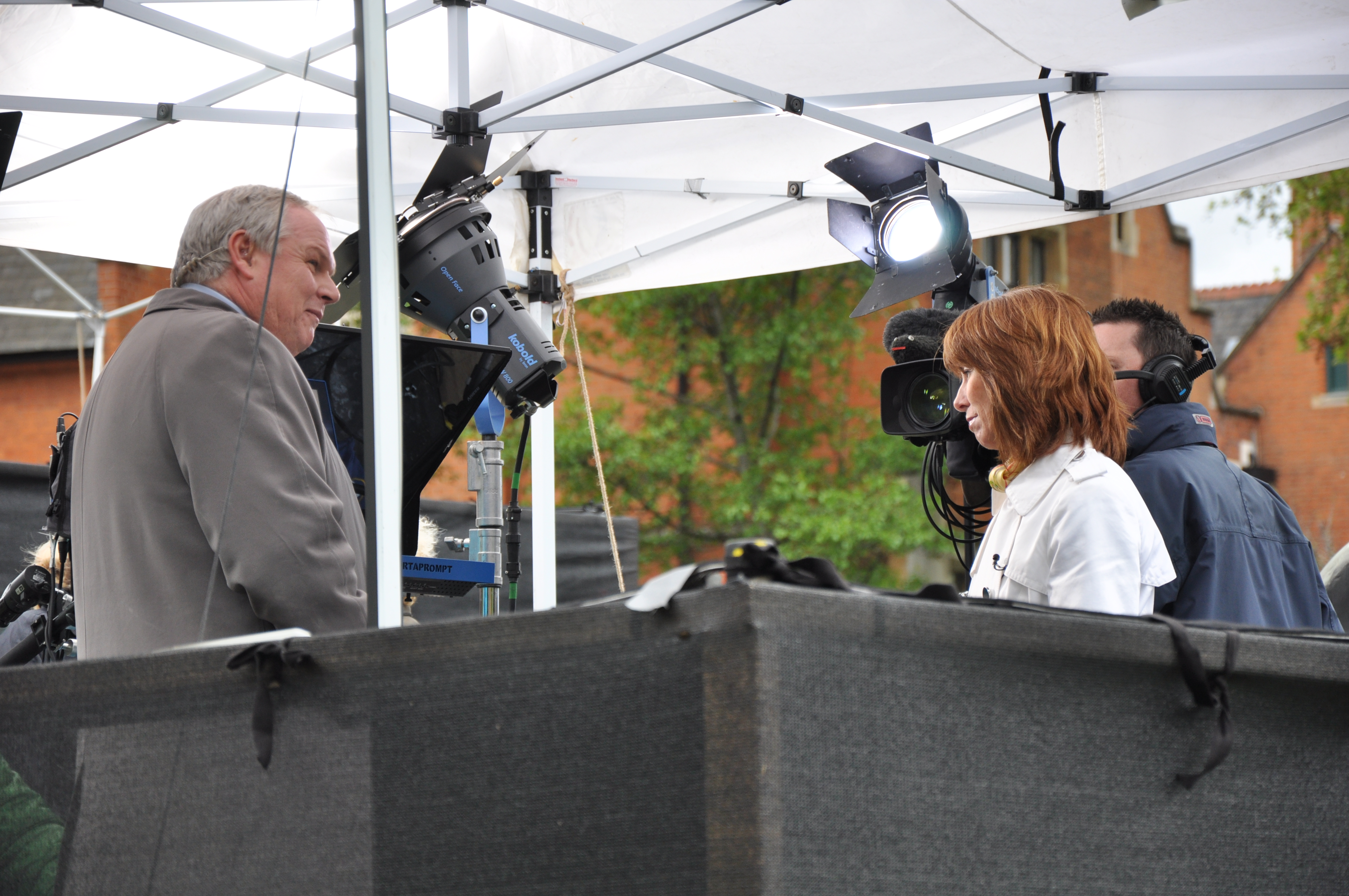 Kay Burley and Adam Boulton on Sky News